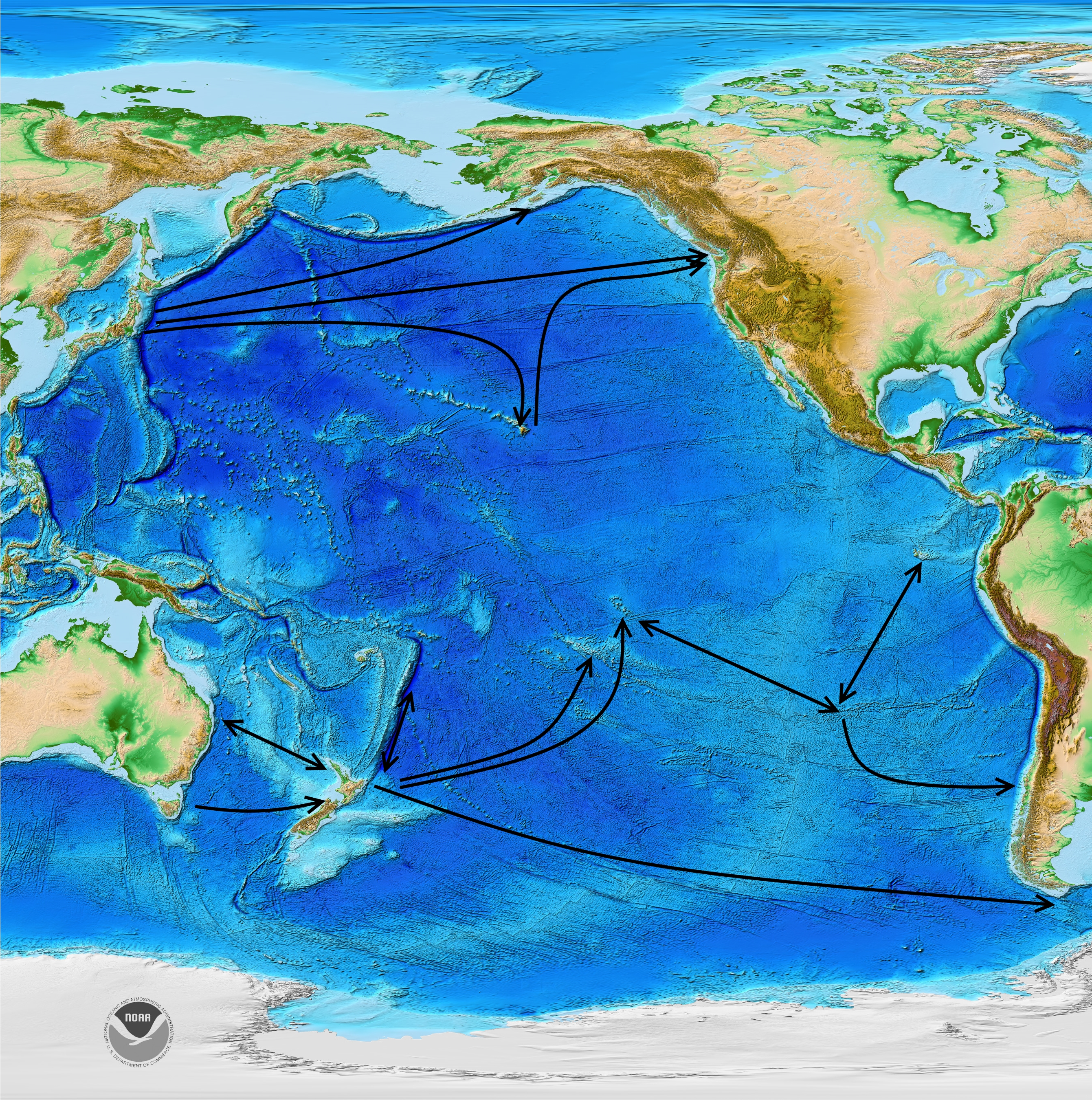 Preferred sailing routes across the Pacific Ocean, direction east